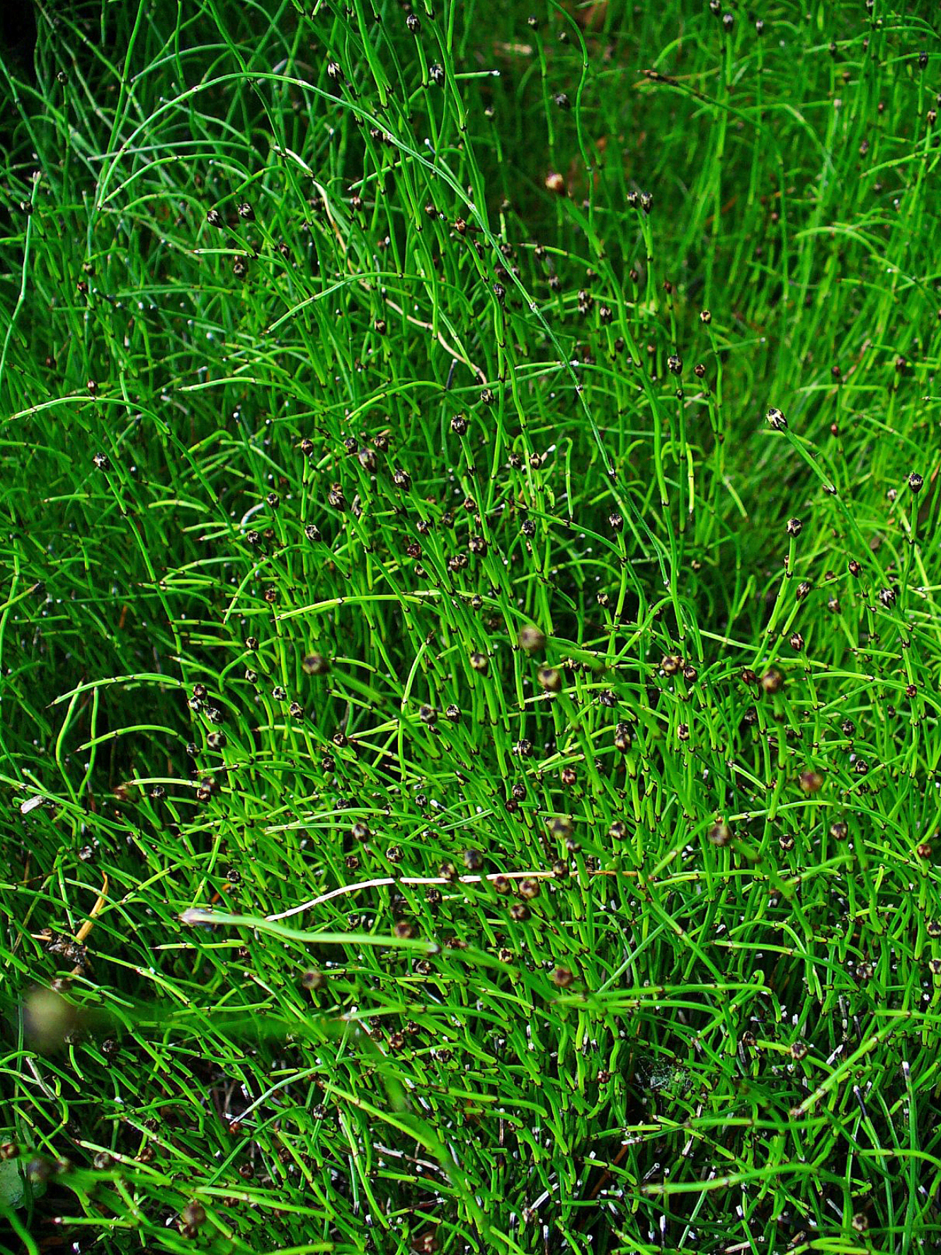 Equisetum scirpoides, Equisetaceae, Dwarf Horsetail, habitus; Botanical Garden KIT, Karlsruhe, Germany.